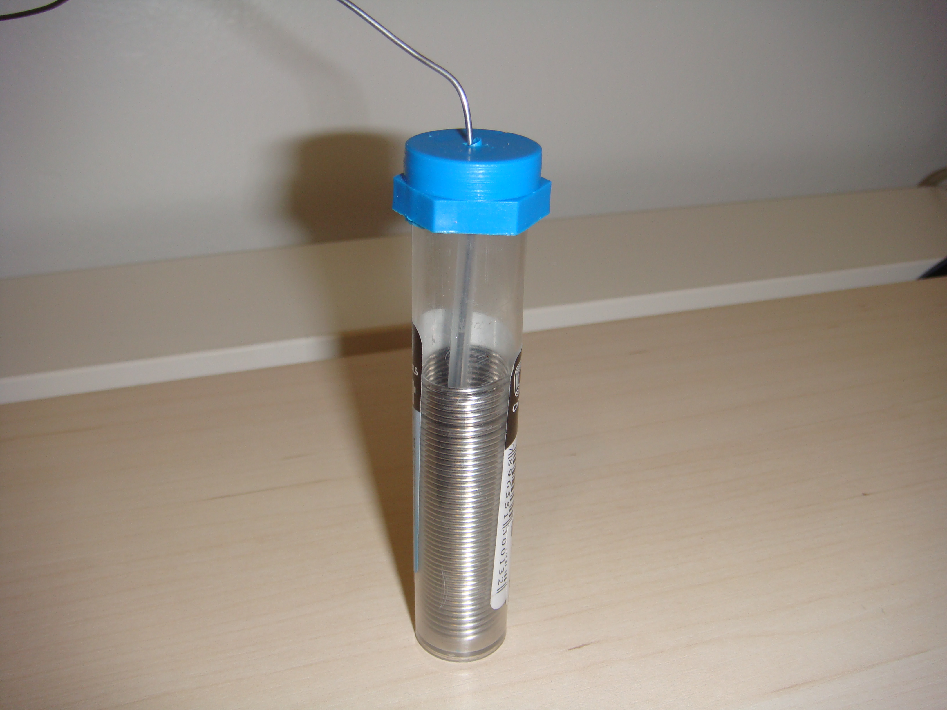 Tin solder.